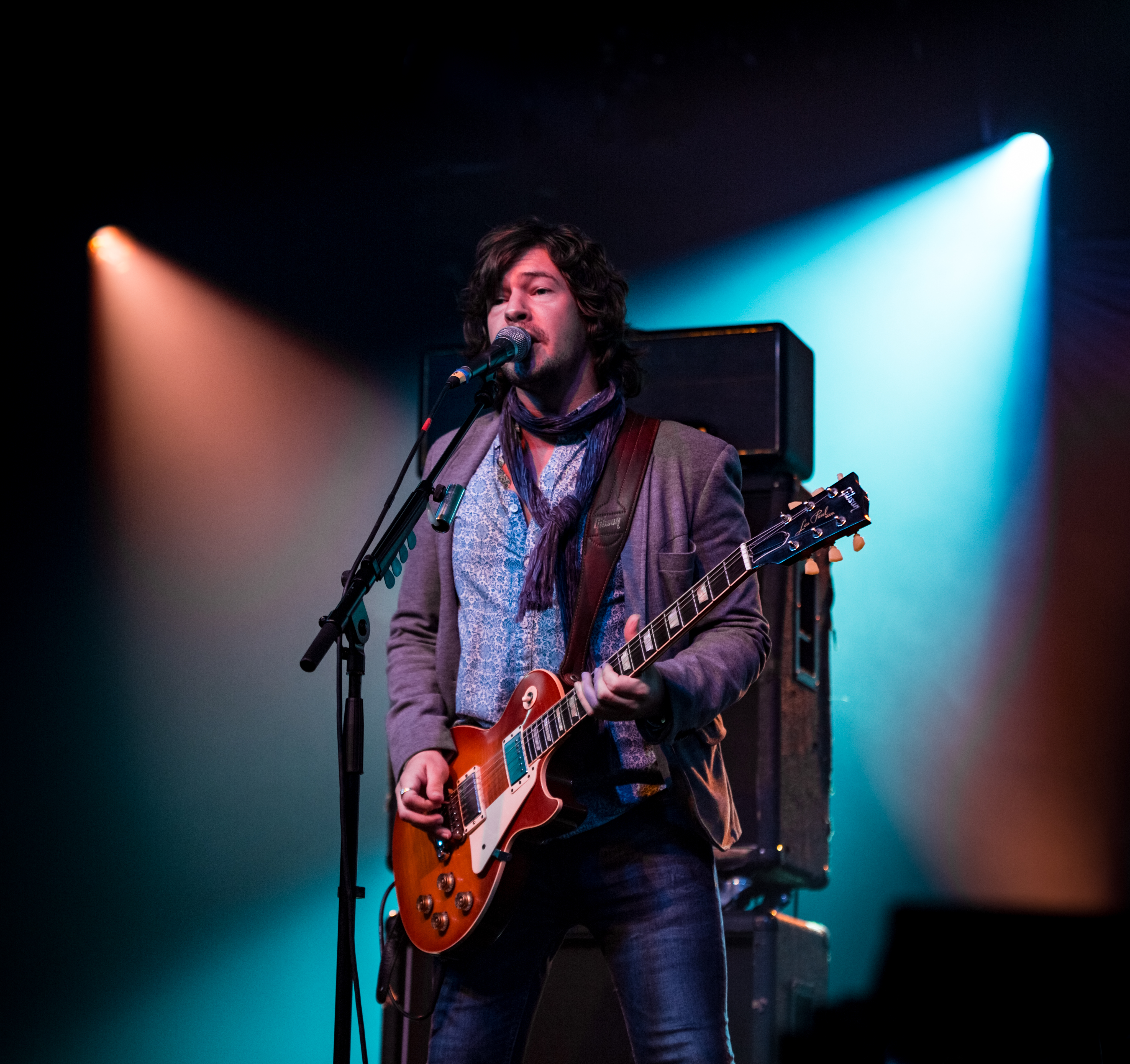 The Brew - Leverkusener Jazztage 2017